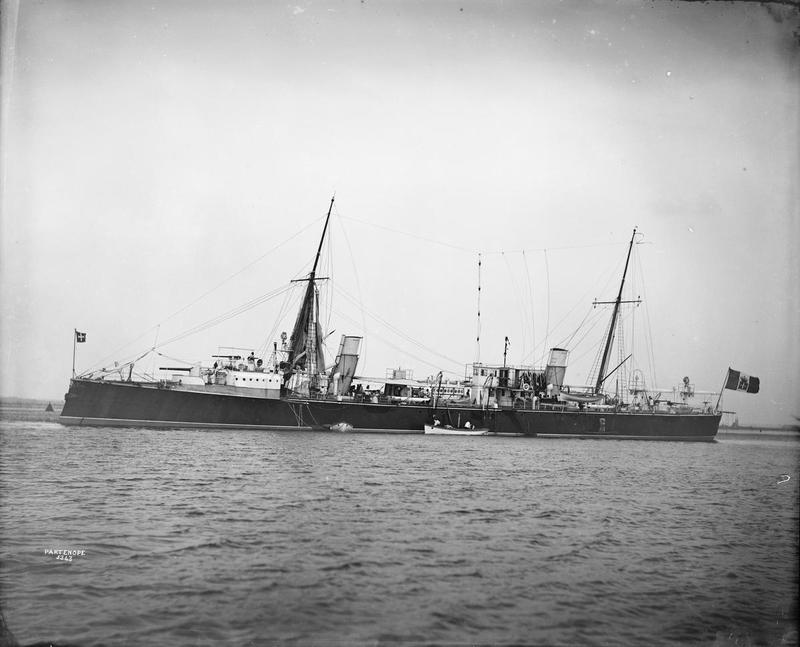 Photograph of Italian torpedo cruiser Partenope